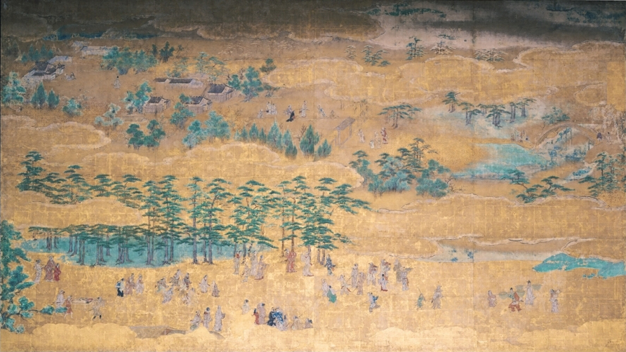 Partition Paintings from the former Enman-in Shinden (Otsu, Shiga), in the Kyoto National Museum, Japan